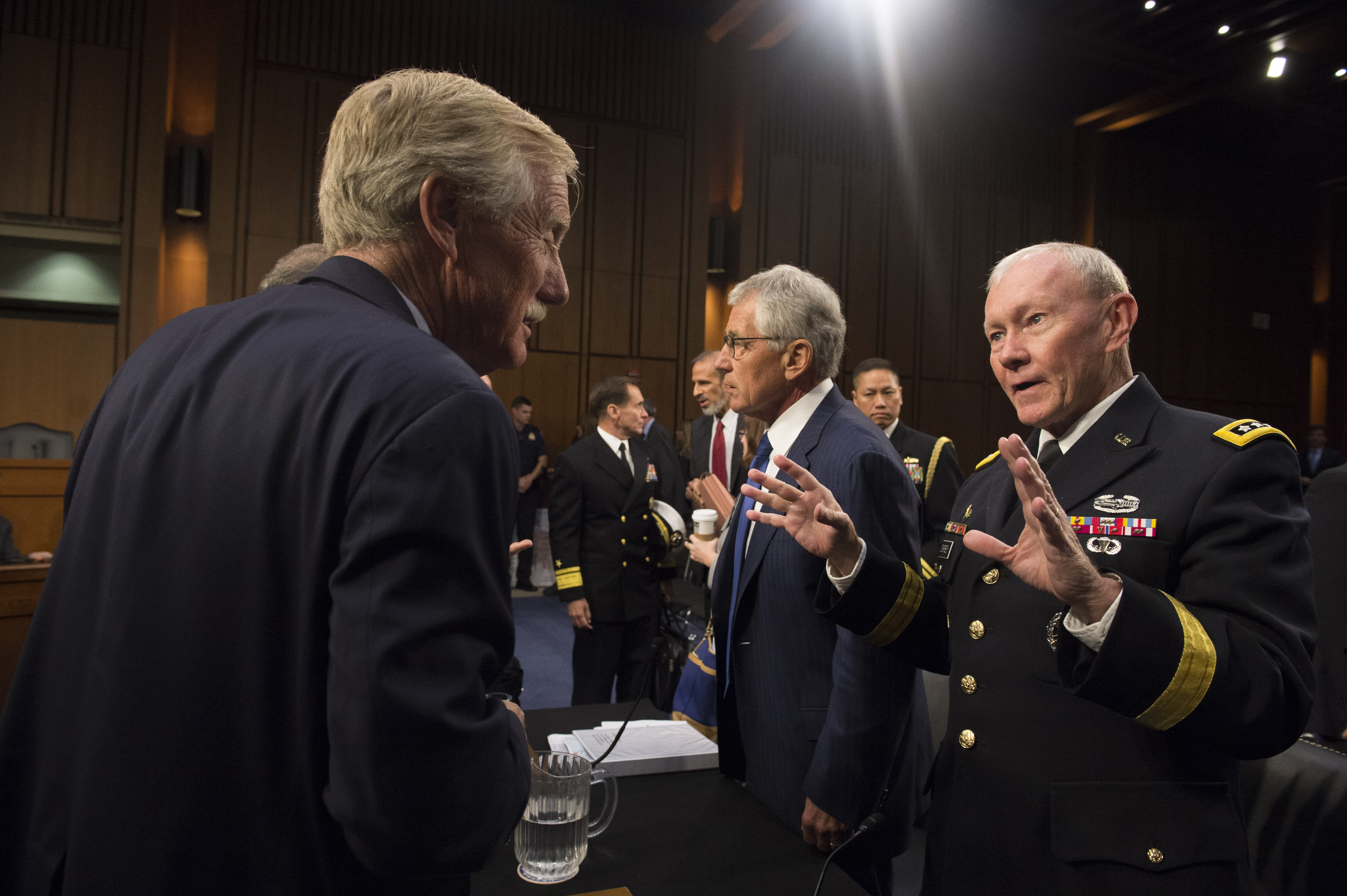 Chairman of the Joint Chiefs of Staff U.S. Army Gen. Martin E. Dempsey, right, speaks with Sen. Angus King of Maine after testifying before the Senate Armed Services Committee Sept. 12, 2014, at the Hart Senate Office Building in Washington, D.C. During his testimony, Dempsey discussed U.S. policy toward Iraq and Syria and the threat posed by extremists known as the Islamic State in Iraq and the Levant. (DoD photo by Mass Communication Specialist 1st Class Daniel Hinton, U.S. Navy/Released)